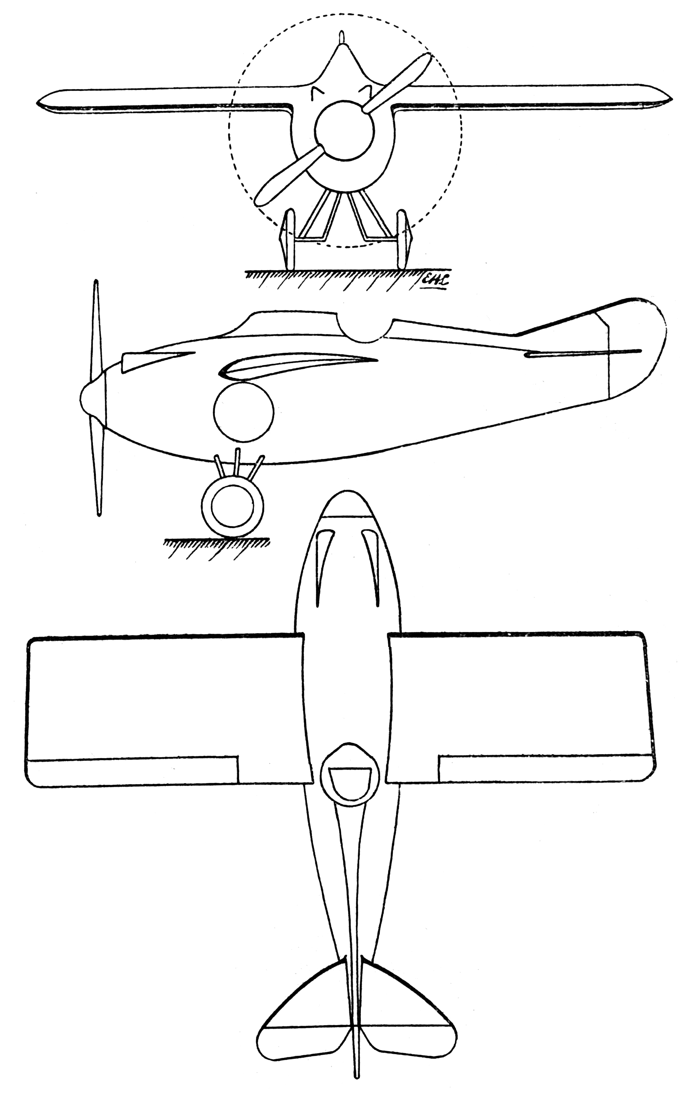 Hanriot HD.22 3-view drawing from Les Ailes September 8, 1921